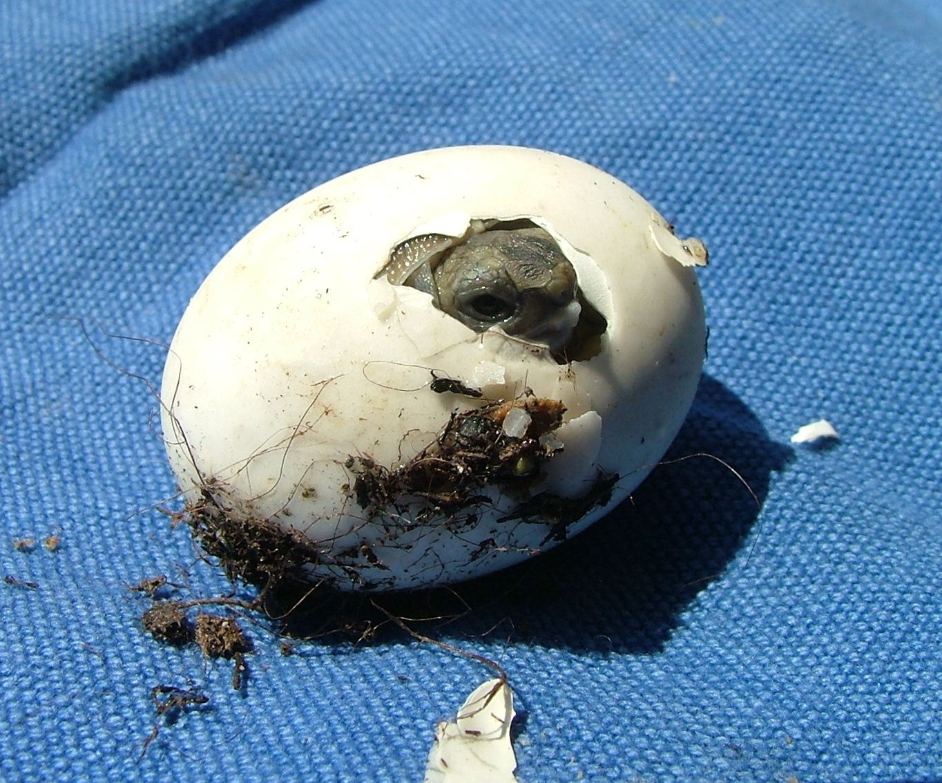 Testudo hermanni hermanni schiusa, hatchling.